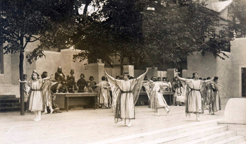 View of the "Play of Saint Lambert" during the 1923 Pilgrimage of the Relics (Heiligdomsvaart) in Vrijthof square, Maastricht, Netherlands.